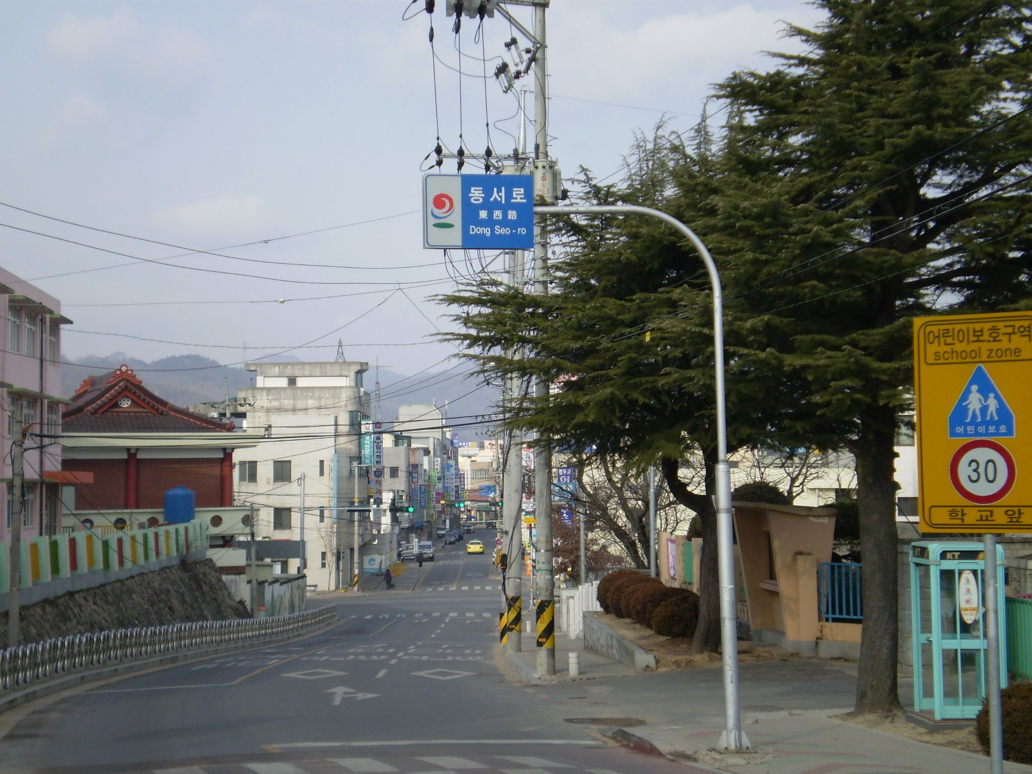 Street sign in Hapcheon, Gyeongsangnam-do, South Korea.